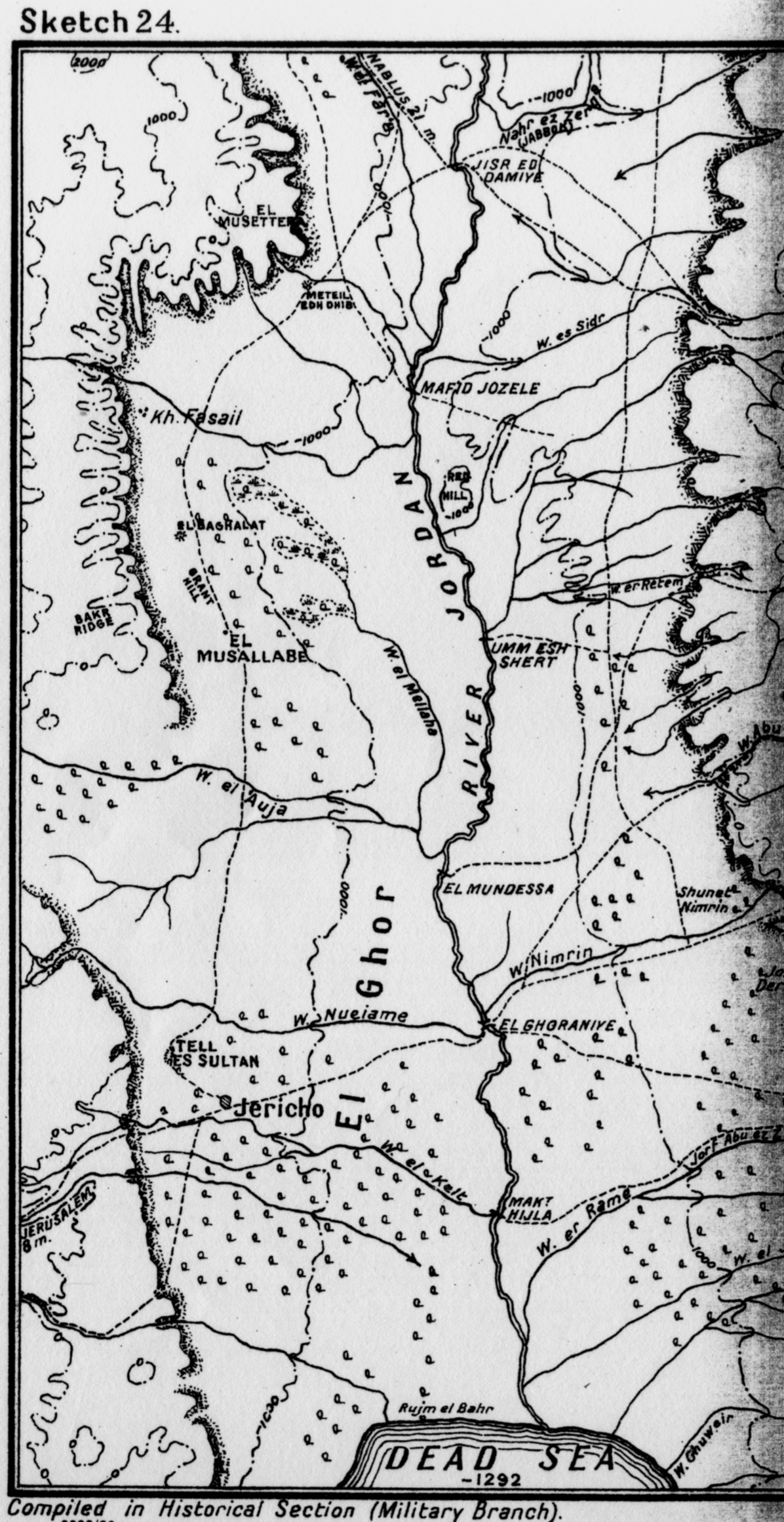 Detail Sketch map No. 24 Transjordan theatre of operations in 1918